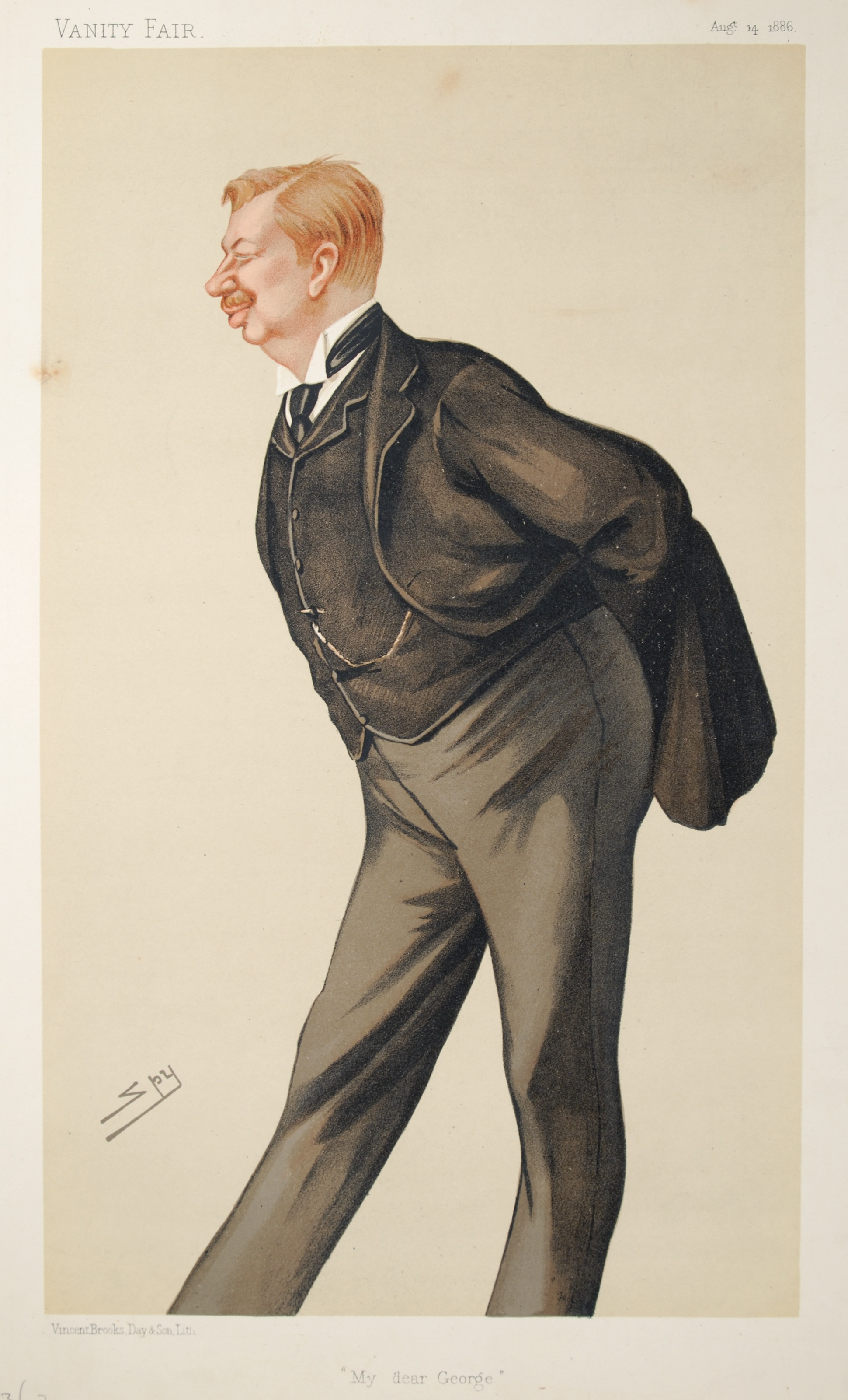 Men of the Day No.0364: Caricature of Mr George Granville Leveson-Gower MP. Caption reads: "My dear George"